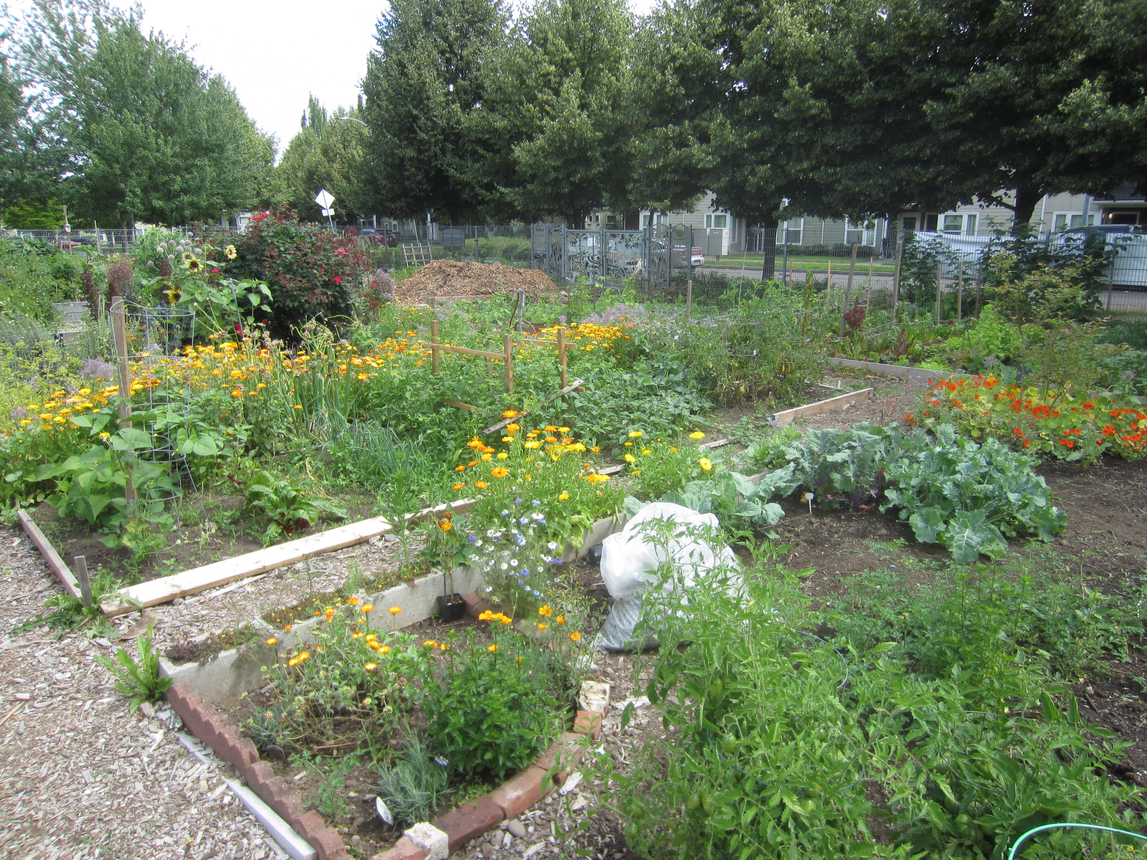 North Portland, Oregon (2019)